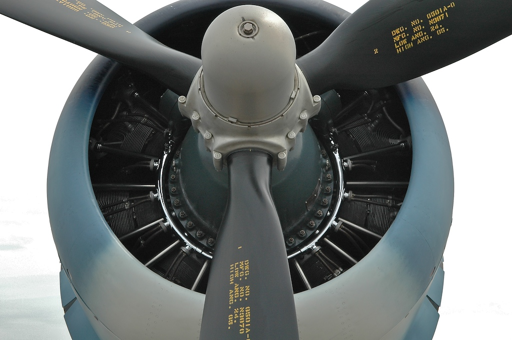 Shown is a Pratt & Whitney R-2800-8 engine in a Goodyear FG-1 Corsair. Shot June 2005 at "Corsairs Over Connecticut" airshow. Rated at 2,000hp 417mph @ 19,900ft